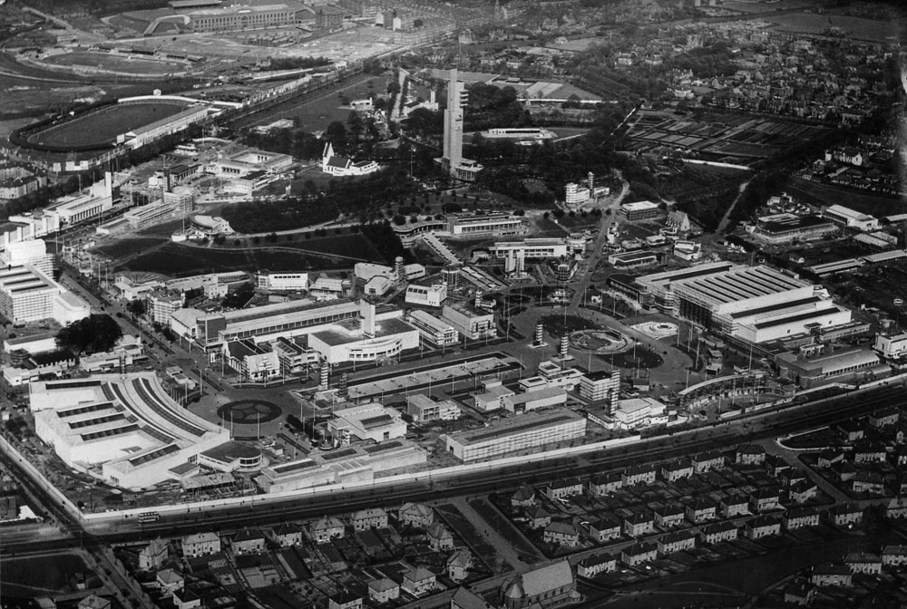 Empire Exhibition, Scotland, 1938, black and white aerial photograph